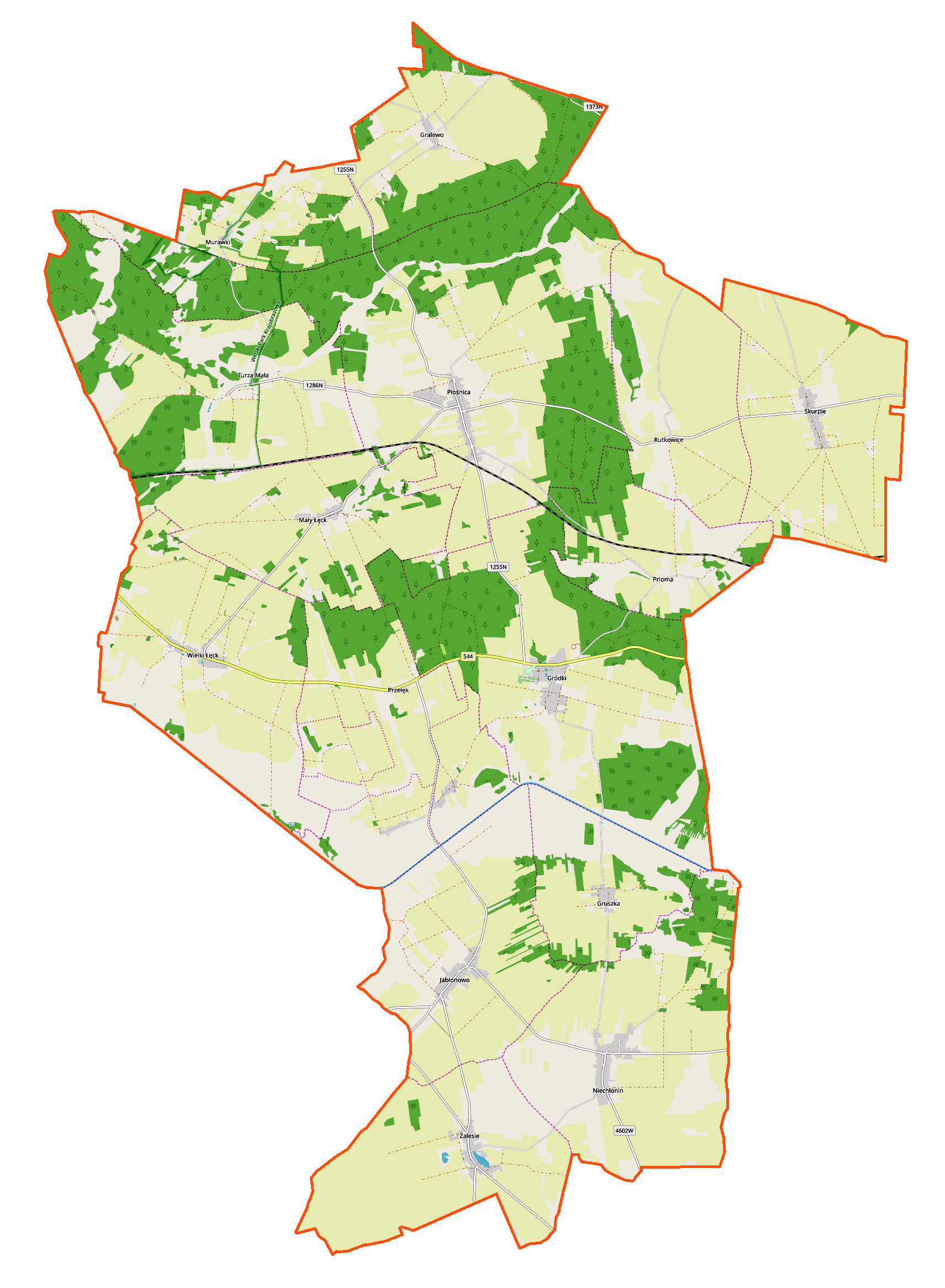 Location map